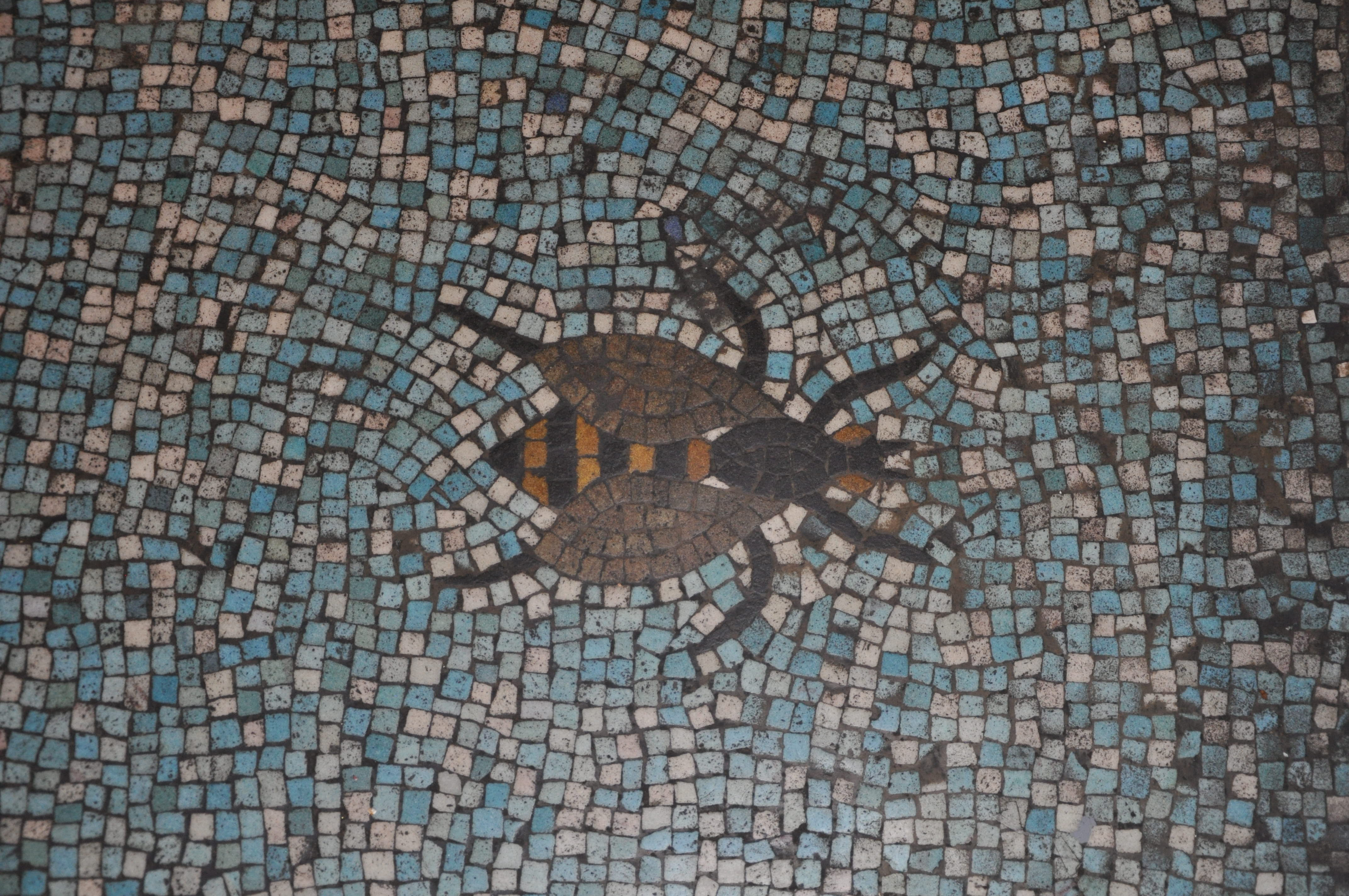 mosaic bee floor tiling in Battersea Town Hall